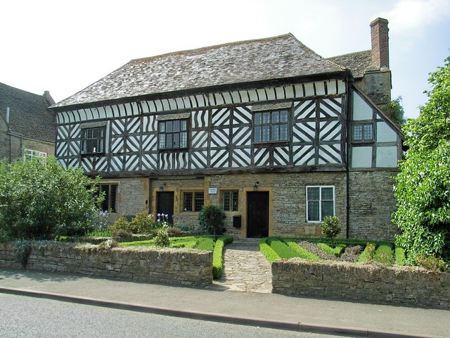 Manor House The manor of Seyne dating from 1370.